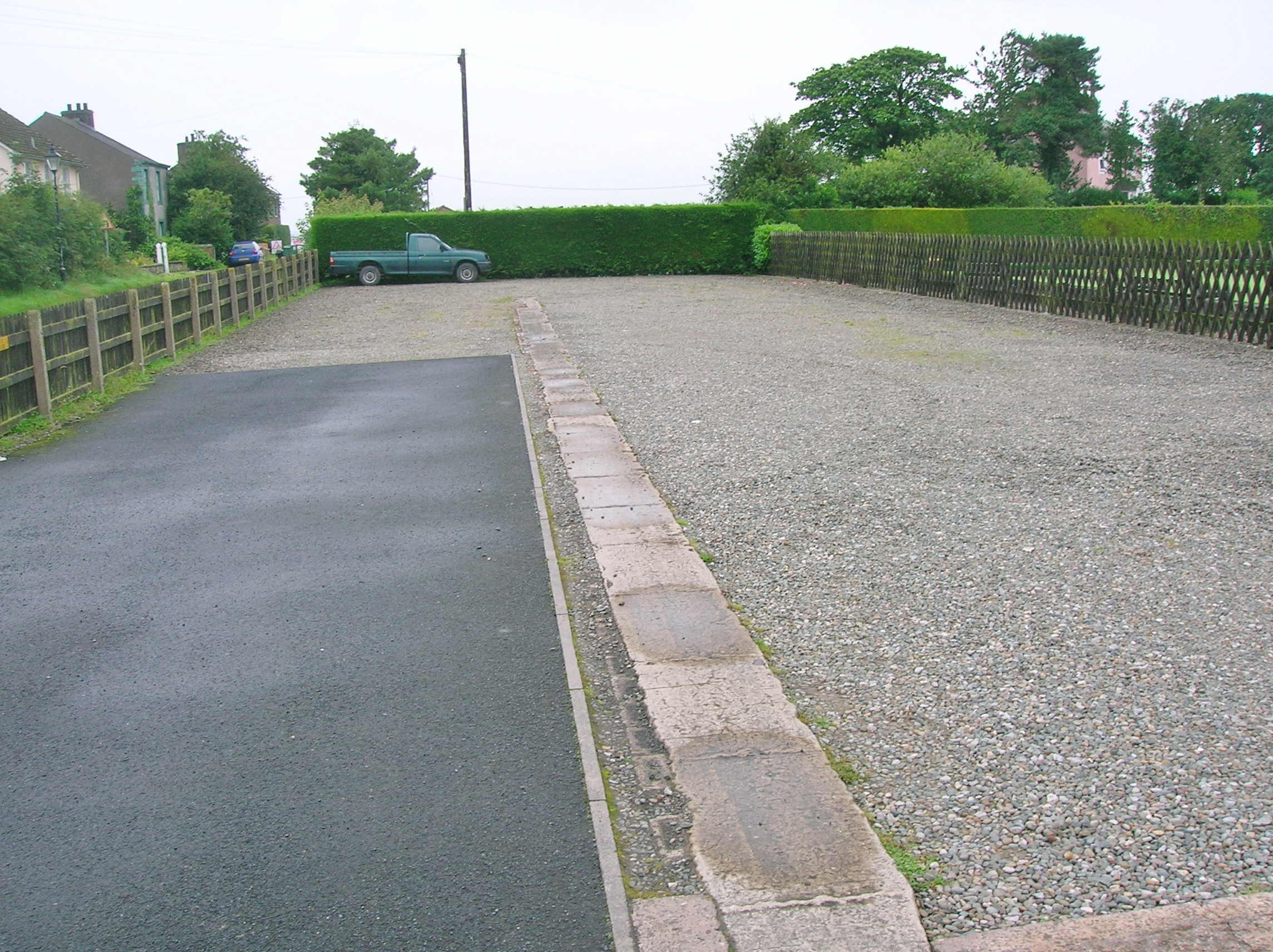 The platform edge of the old Port Carlisle railway station, Cumbria, England.